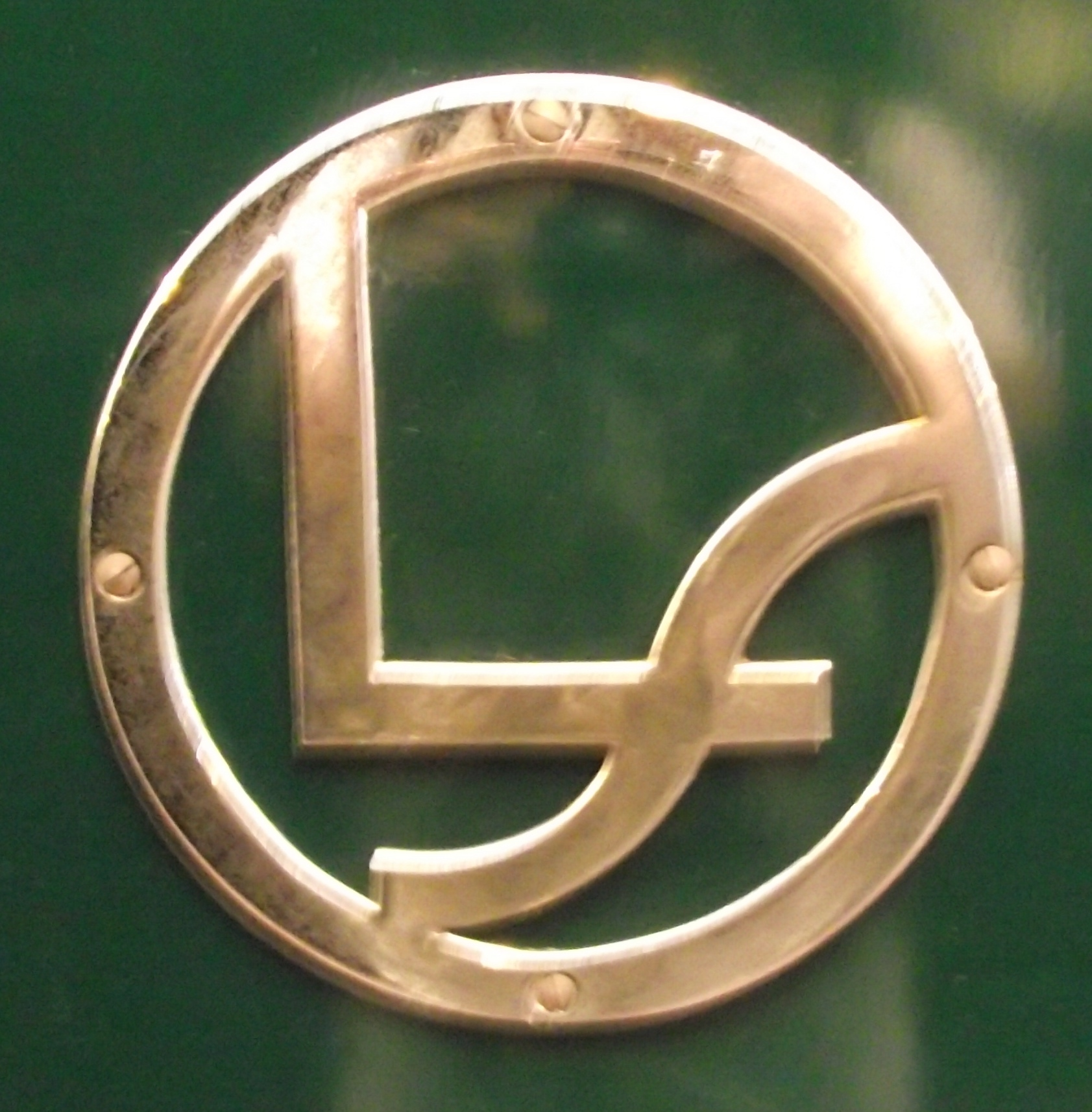 The RELSE logo used on the trams of the compagny in Liege. The letters "L" and "S" are recognizable. (Railways Economique de Liège-Seraing et Extensions)